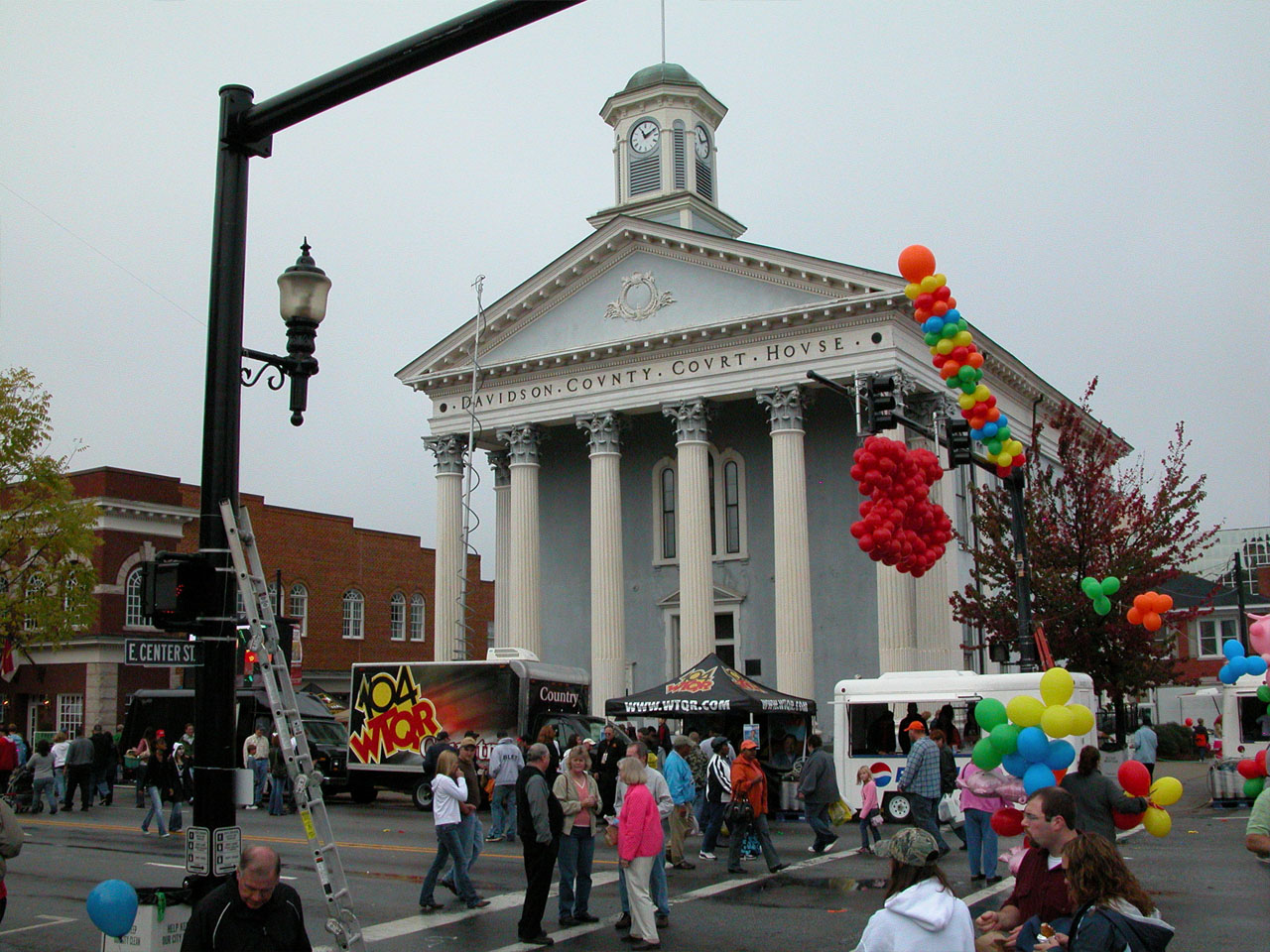 Lexington Barbecue Festival 2008, 25th anniversary. Shot of downtown, Main and Center, and the courthouse during the festival. It was raining that day